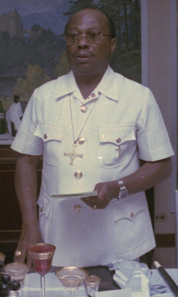 Jimmy Carter and Cyrus Vance attend a luncheon hosted by William Tolbert, 04/03/1978.